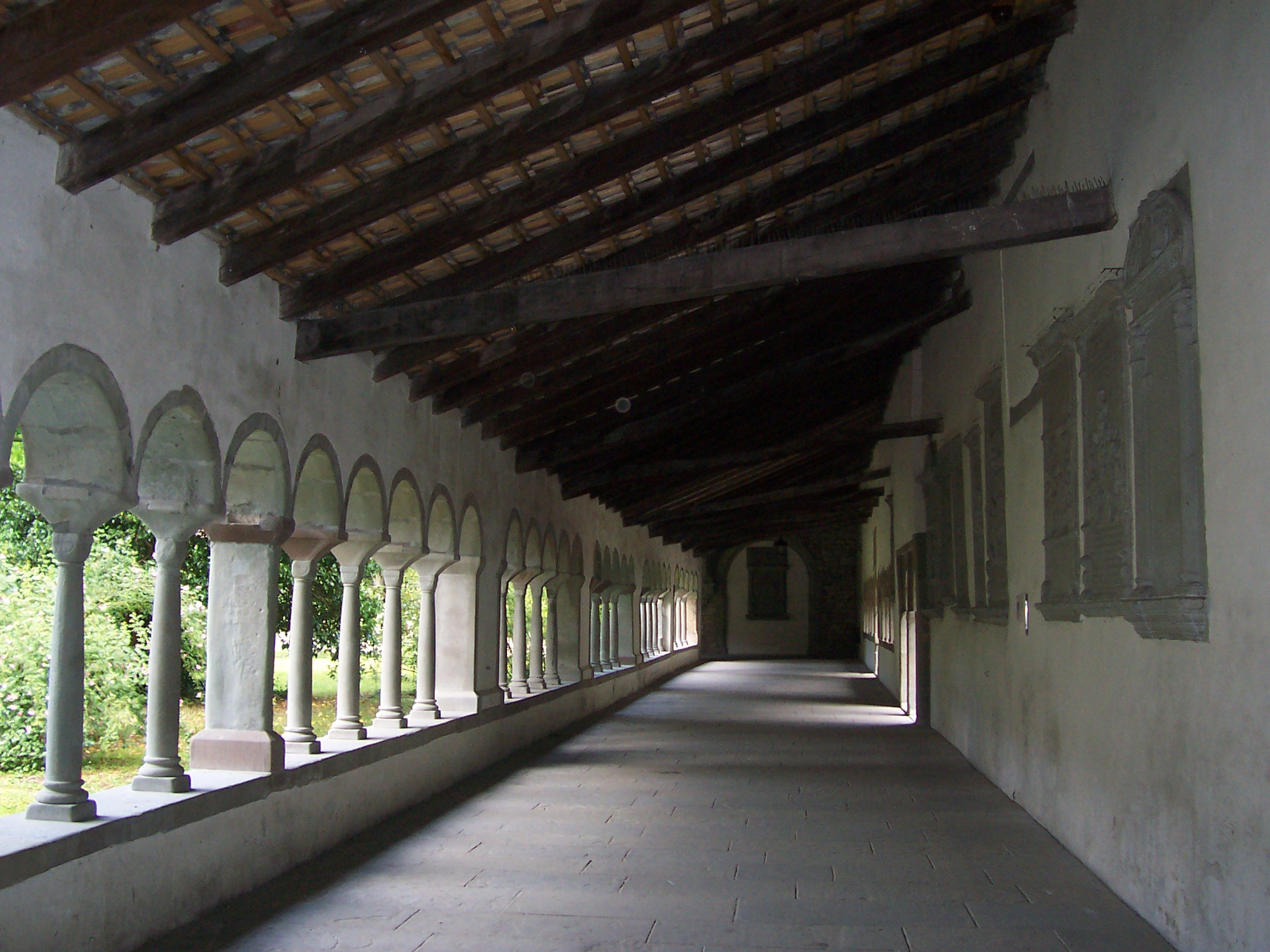 The cloister of the Former Benedictine Monastery